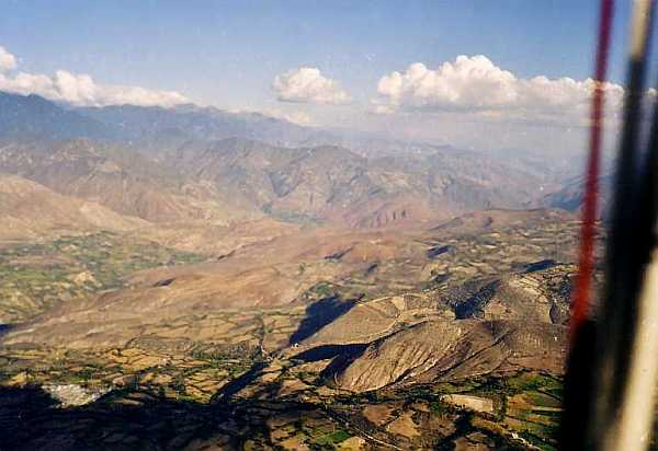 Rio Huancabamba as seen from paraglider